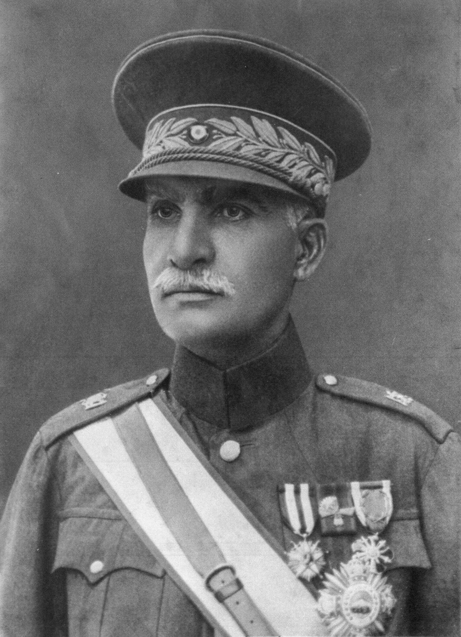 Picture of Reza Shah, emperor of Iran in the early 30's in uniform